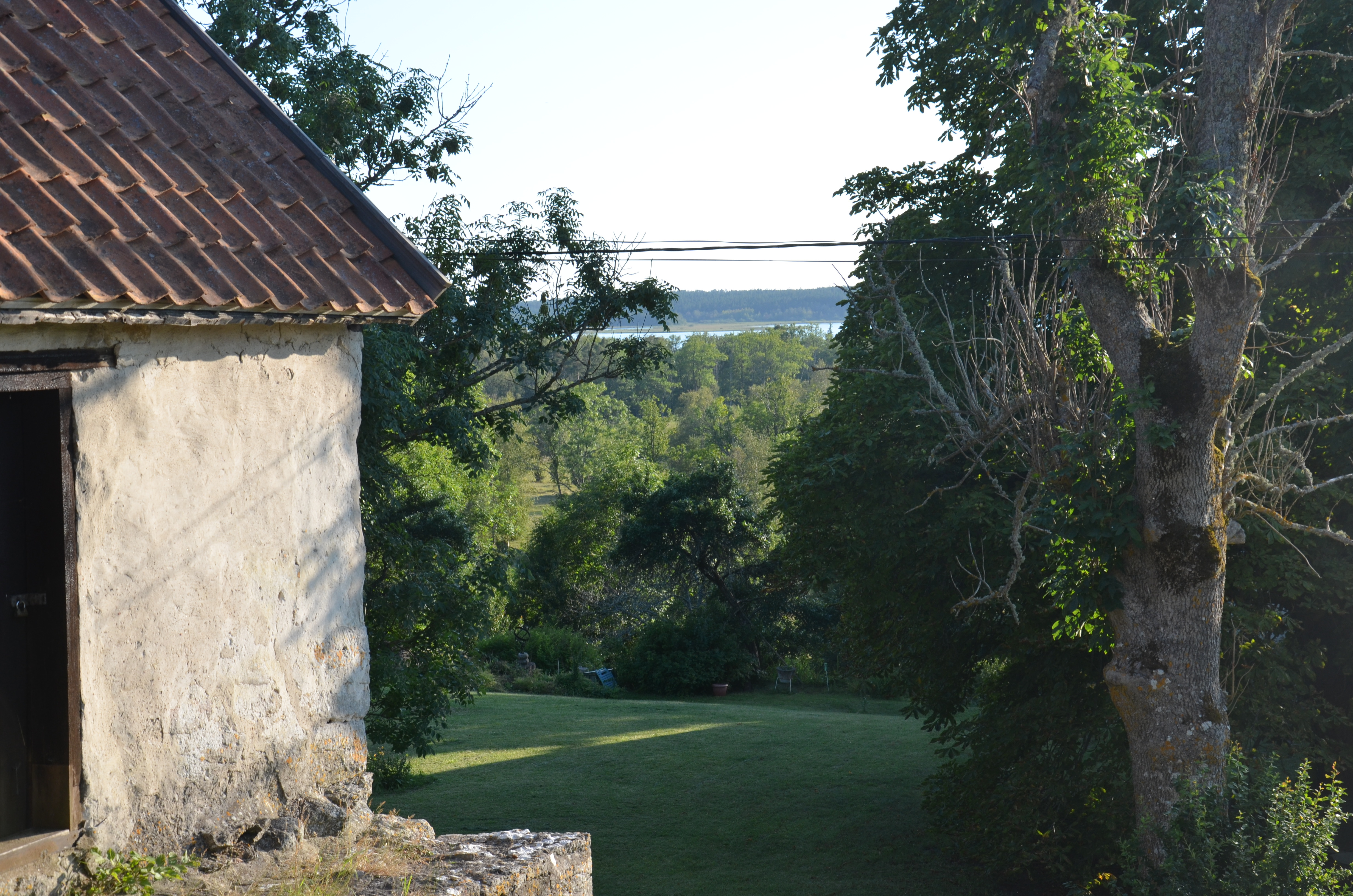 Fardume träsk från Fardume slott